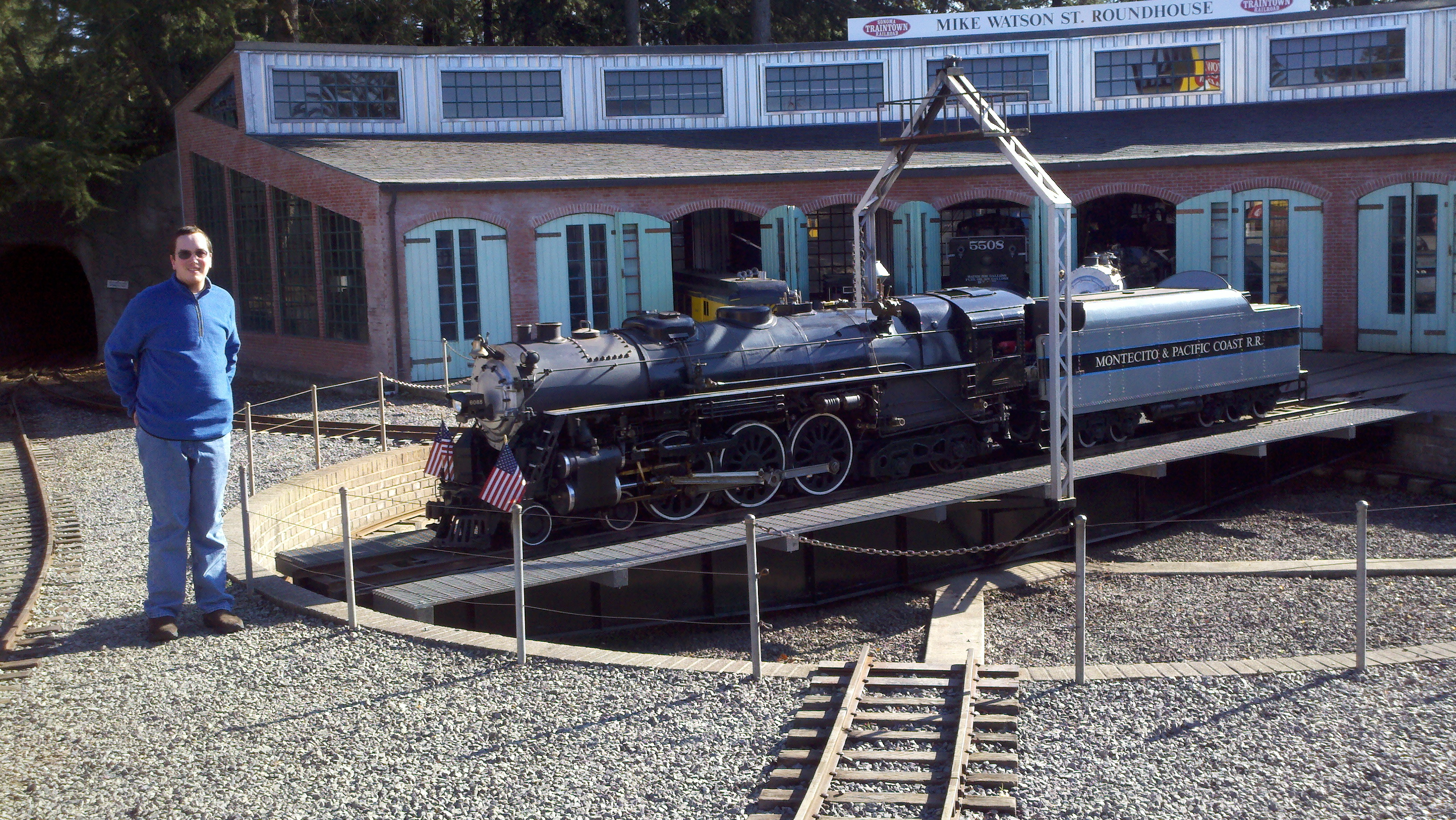 A quarter-scale steam locomotive on the turntable in front of the round house at the Sonoma TrainTown Railroad in Sonoma, California